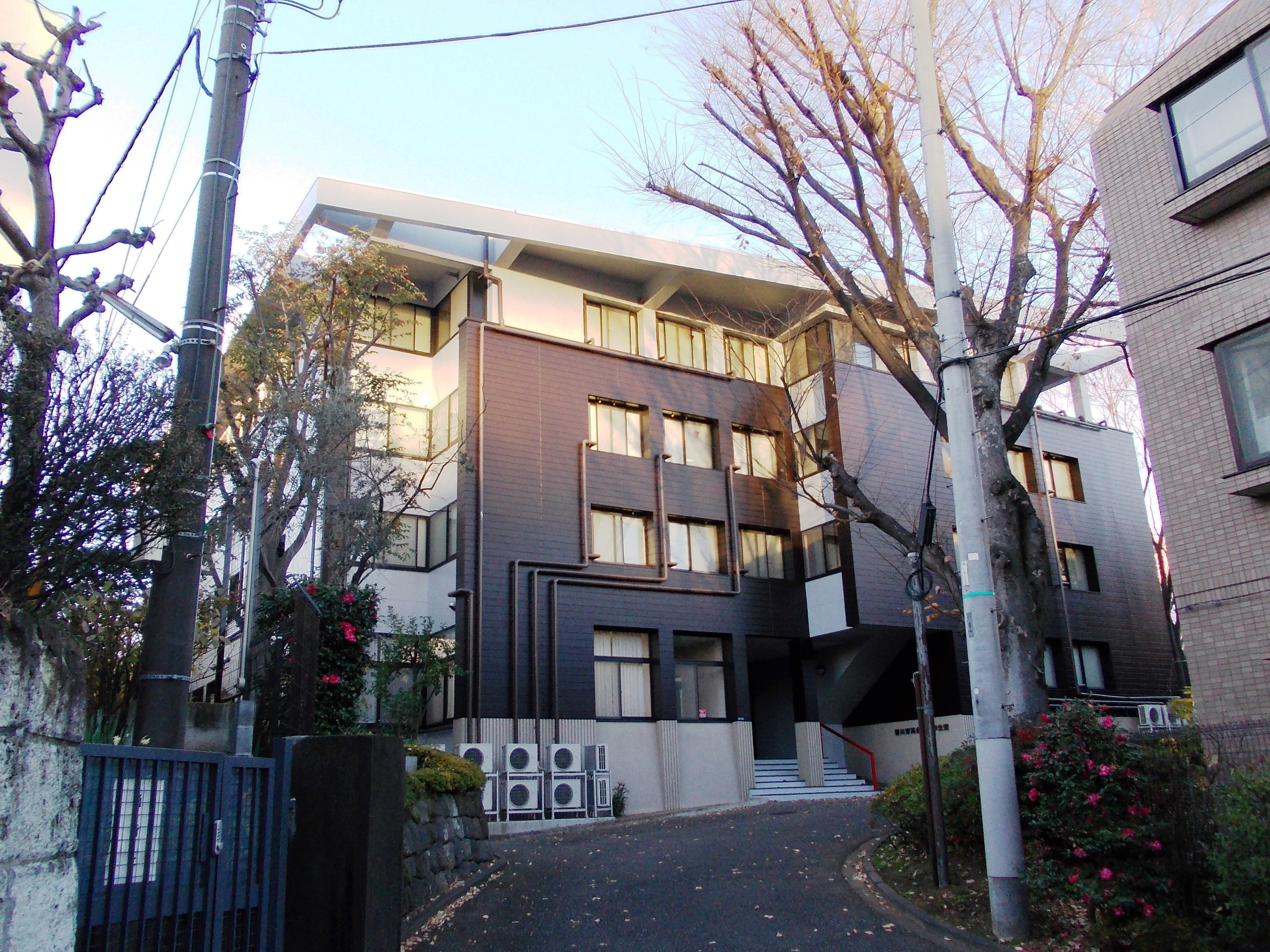 It was taken by me in Minato ward.